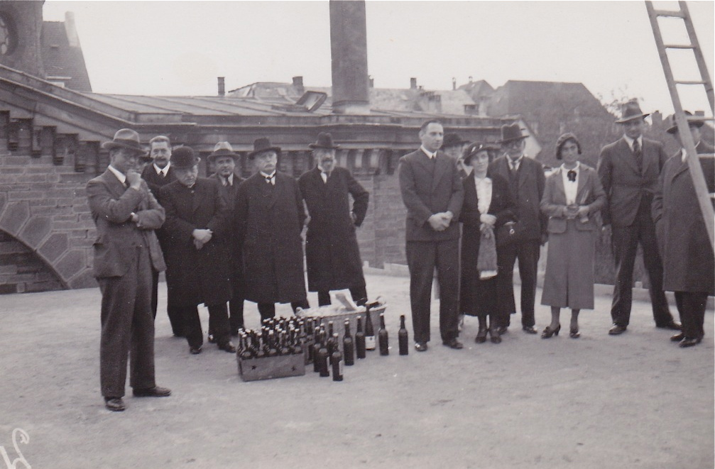 Topping-out ceremony on the Jewish school in Stuttgart in 1934